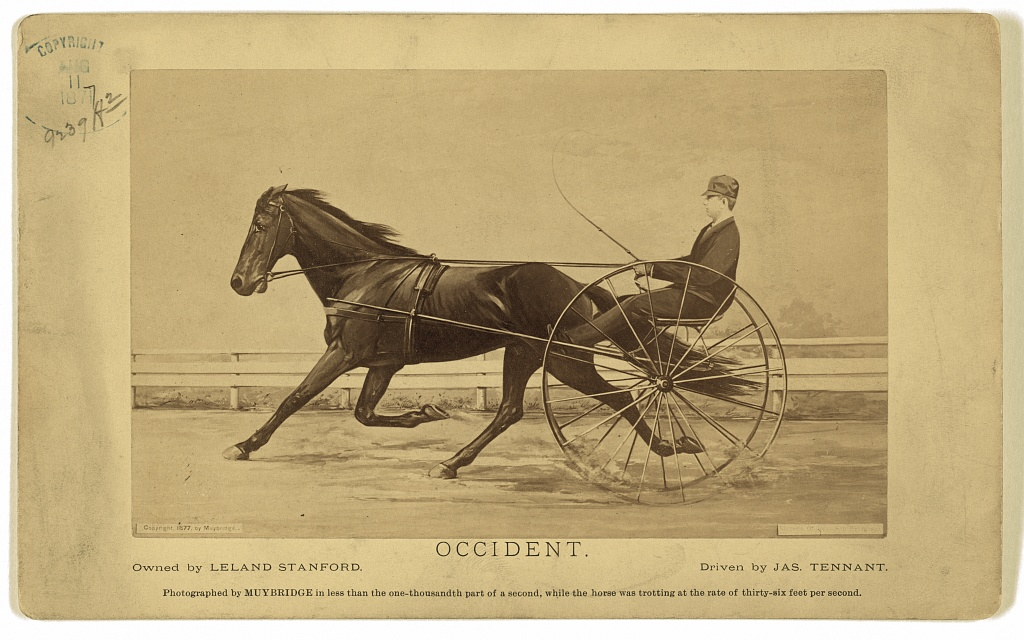 Title: Occident. Owned by Leland Stanford. Driven by Jas. Tennant Abstract/medium: 1 photographic print : albumen silver mounted on board.